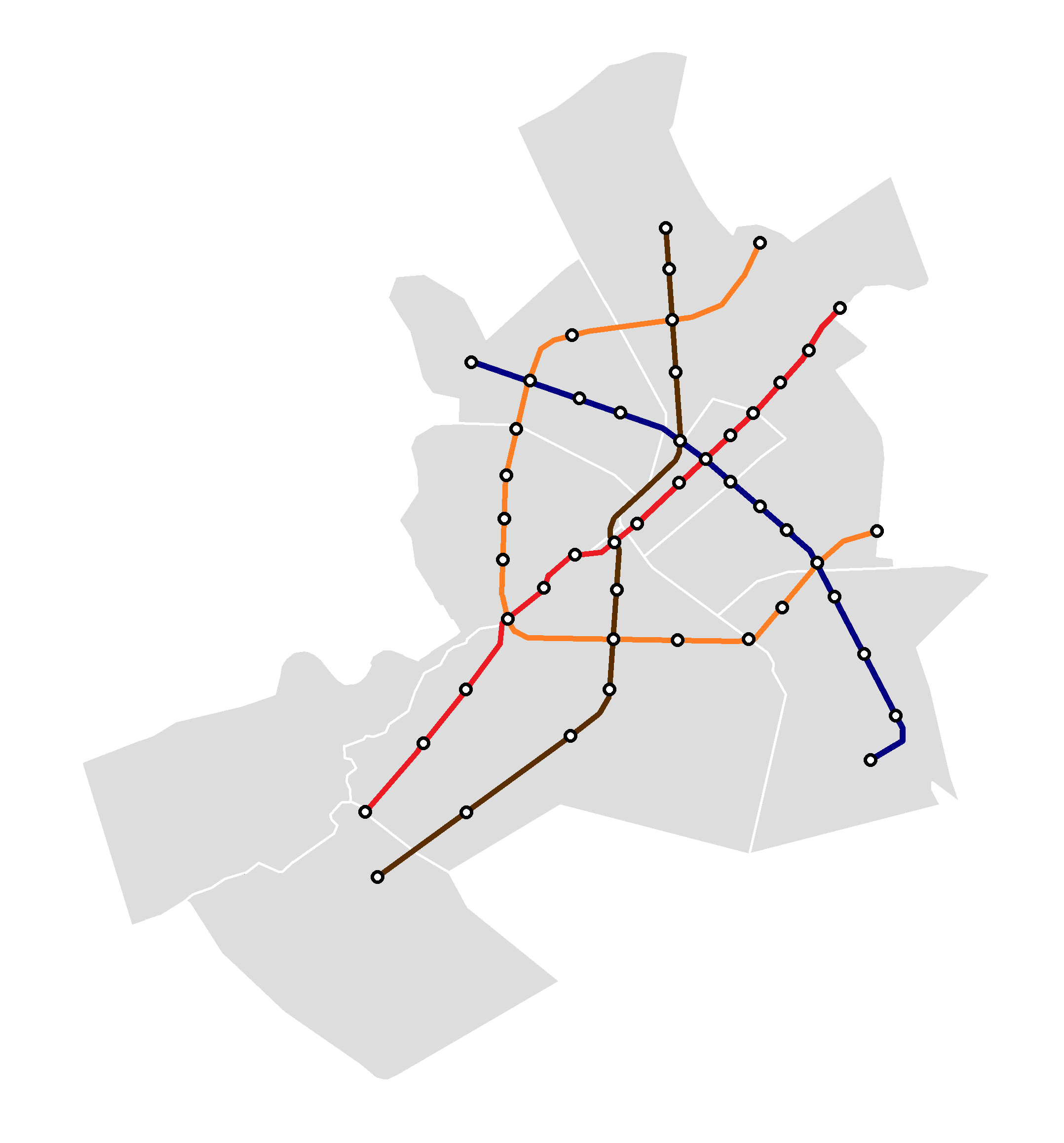 Qom Planned subway lines